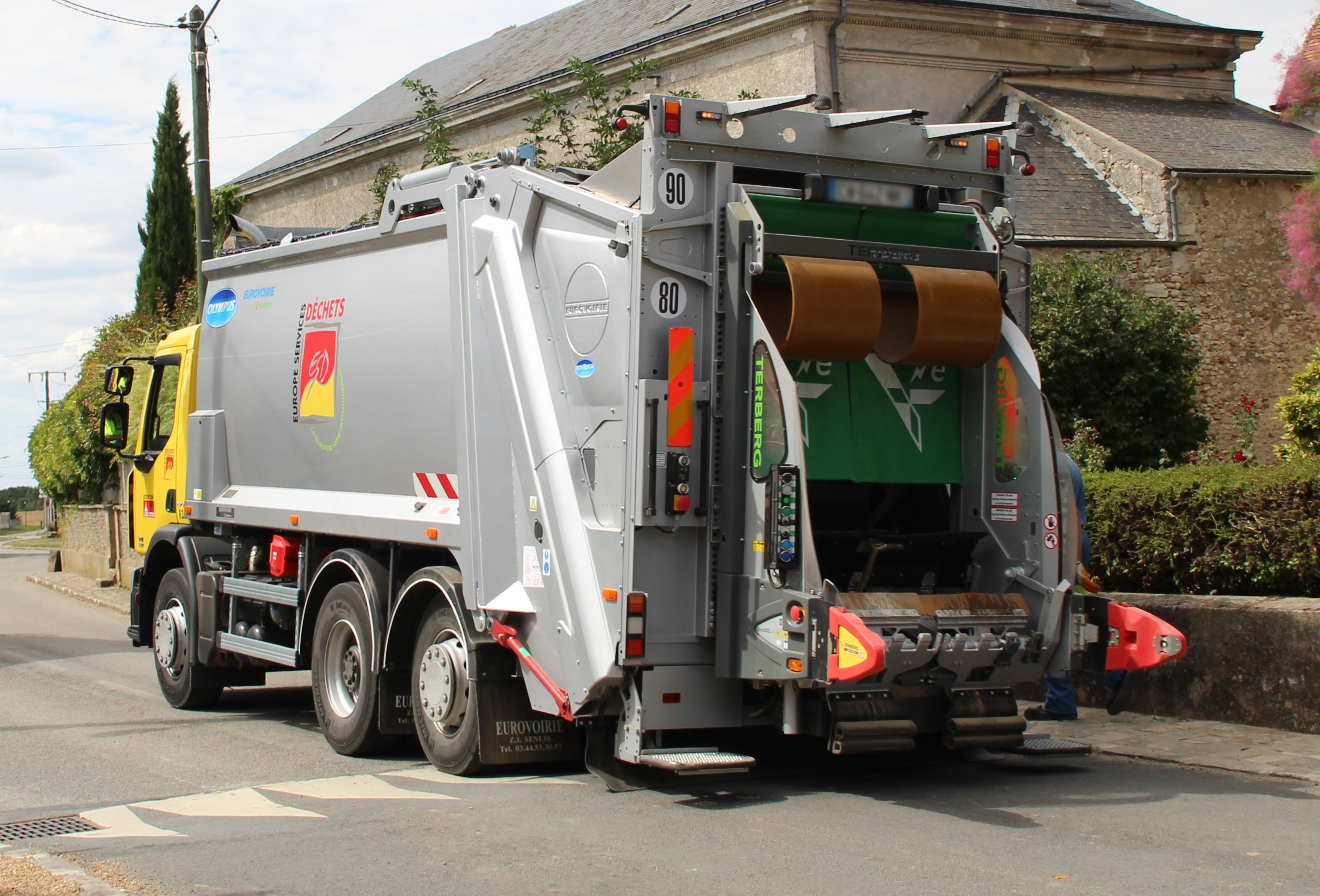 Waste collection truck in Boinville-le-Gaillard, France